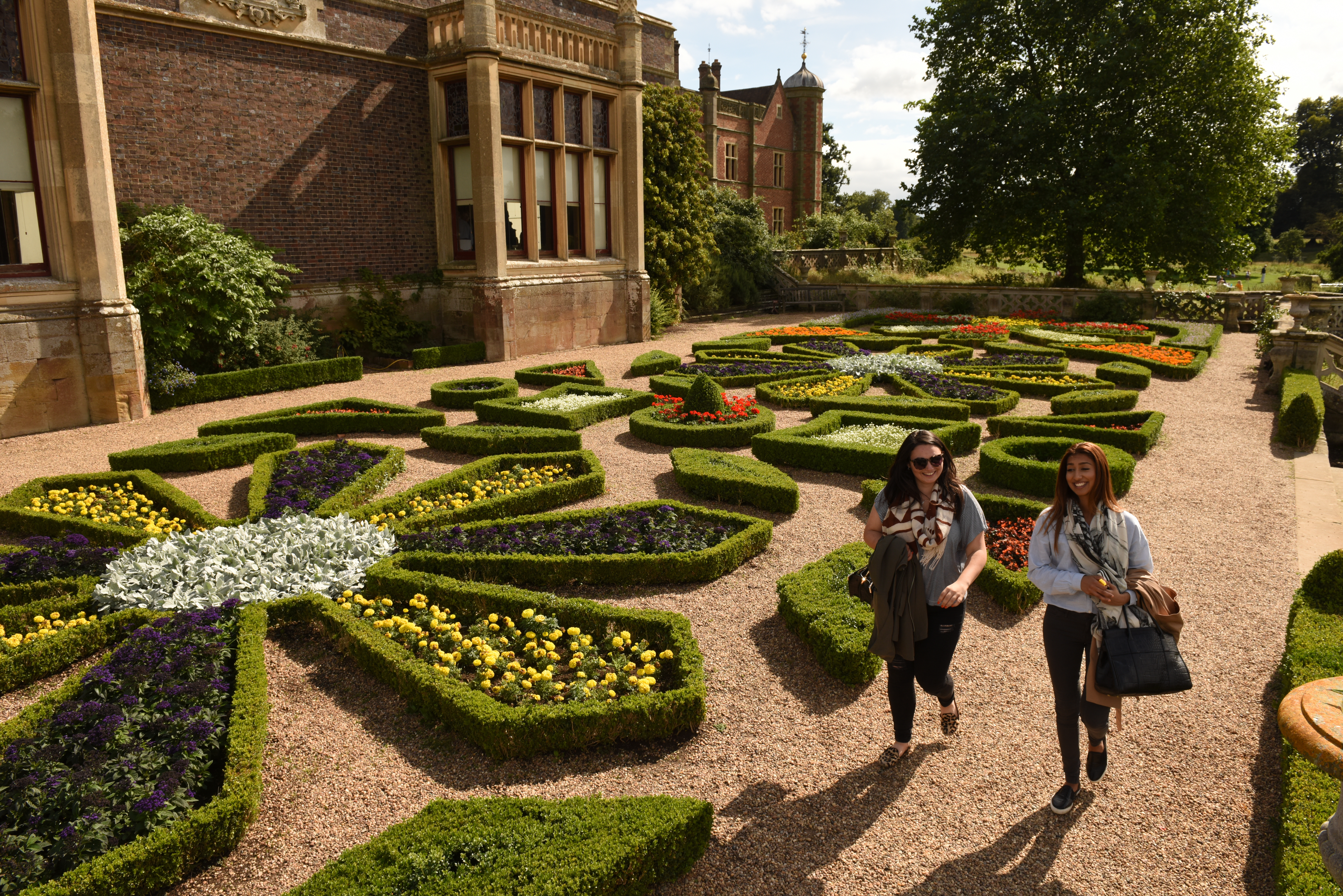 Visitors in the parterre garden at Charlecote Park, Warwickshire